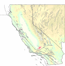 Map of the White Wolf Fault (in red) in Southern California, United States.